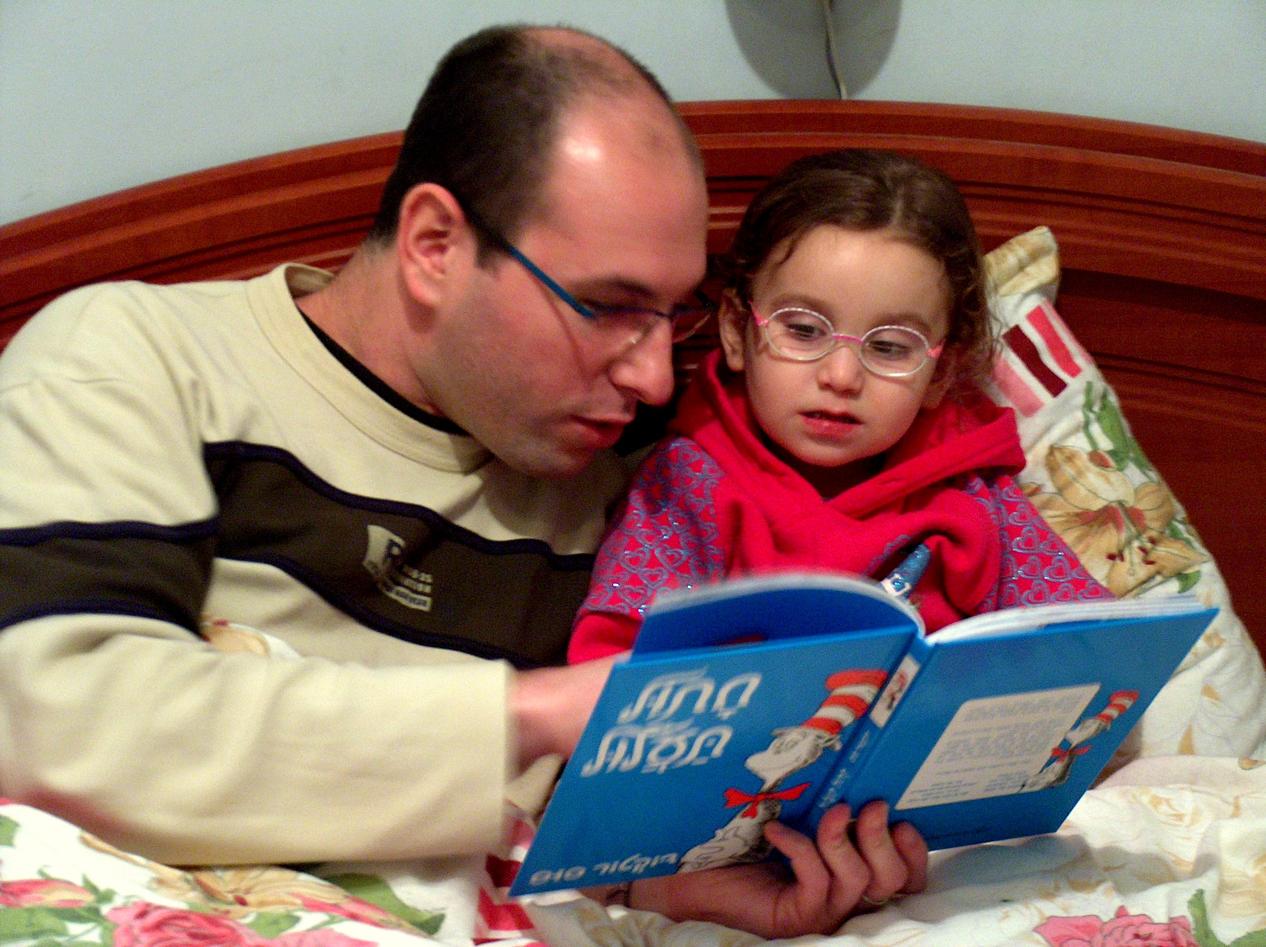 Reading a bedtime story to my daughter: The Cat in the Hat (in the Hebrew translation "Chatul Taalul"), by Dr. Seuss